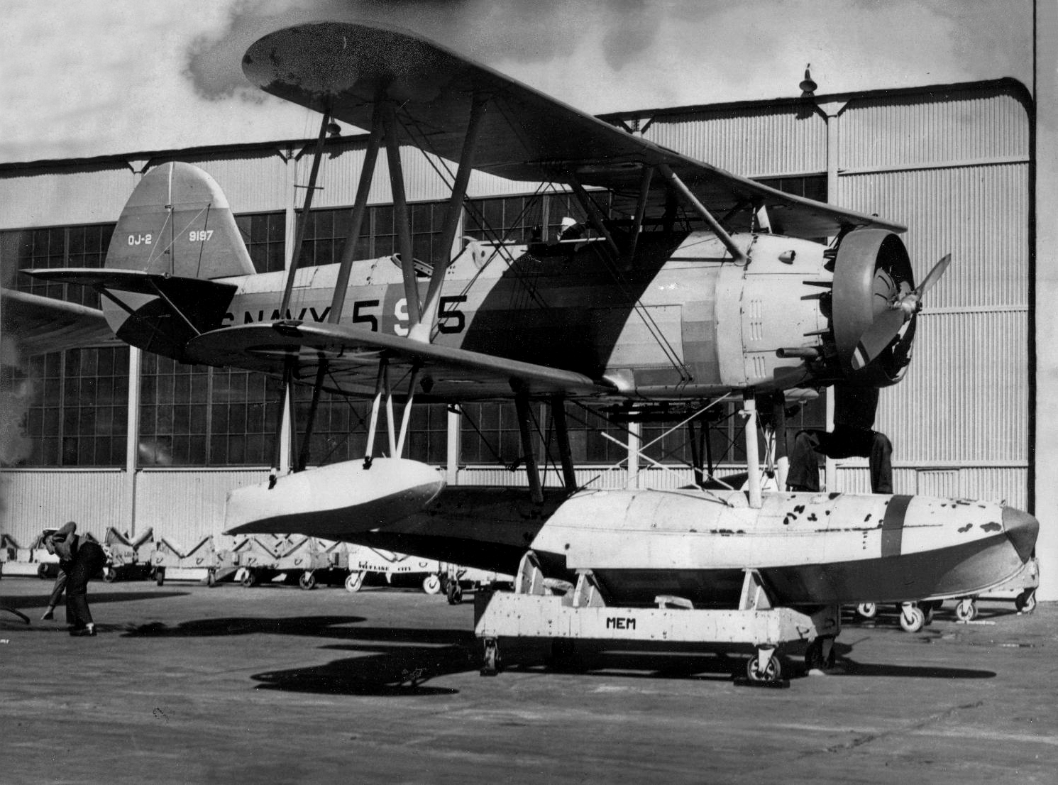 A U.S. Navy Berliner-Joyce OJ-2 observation floatplane (BuNo 9197) of Scouting Squadron 5B (VS-5B), assigned to the light cruiser USS Memphis (CL-13), in front of a hangar at Naval Air Station San Diego, California (USA), circa 1933-1935.